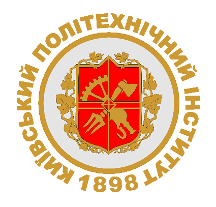 Coa of Kyiv Polytechnic Institute